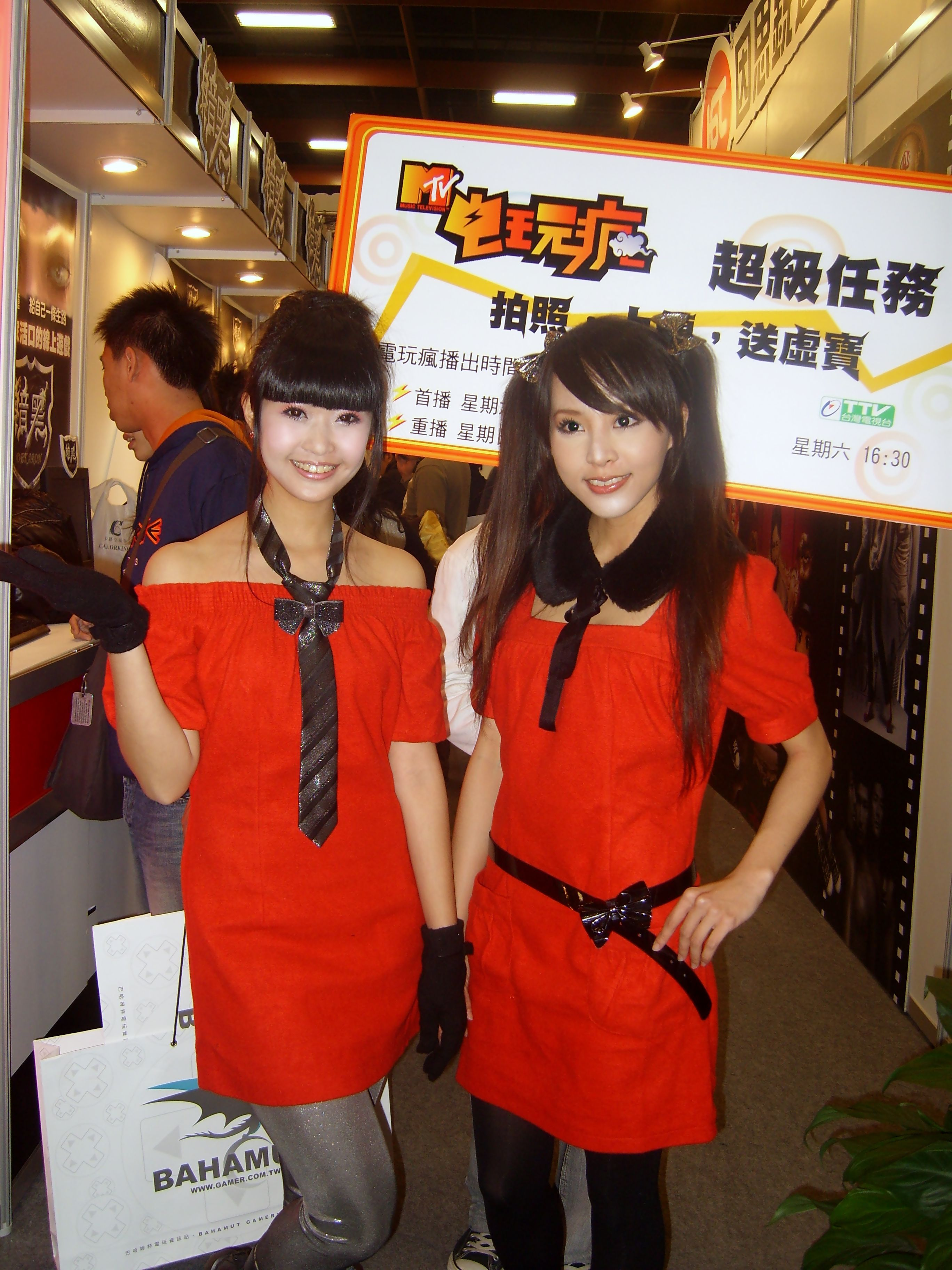 2008 Taipei Game Show: Hosts from MTV Game Crazy (Akina Su-chin Chen and Flora Tzu-ning Wang) at Insrea booth.中文（台灣）: 2008年台北國際電玩展因思銳遊戲總局攤位，MTV中文台與臺灣電視公司聯播電玩節目《MTV電玩瘋》主持人，左起：小貓（陳思瑾）、子寧（王子寧）。